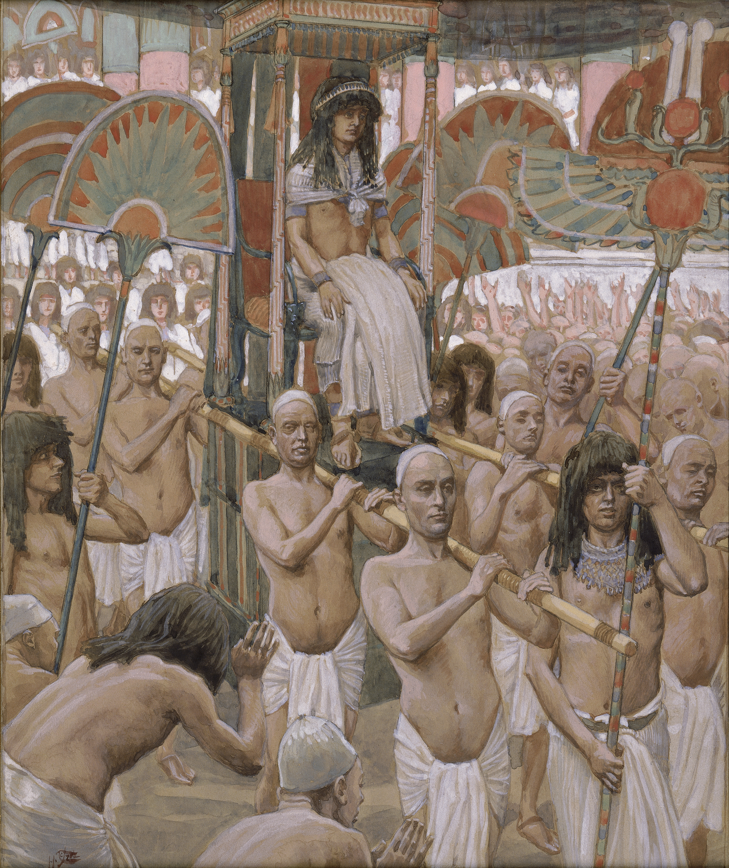 The Glory of Joseph, c. 1896-1902, by James Jacques Joseph Tissot (French, 1836-1902), gouache on board, 10 7/8 x 9 1/16 in. (27.6 x 23 cm), at the Jewish Museum, New York